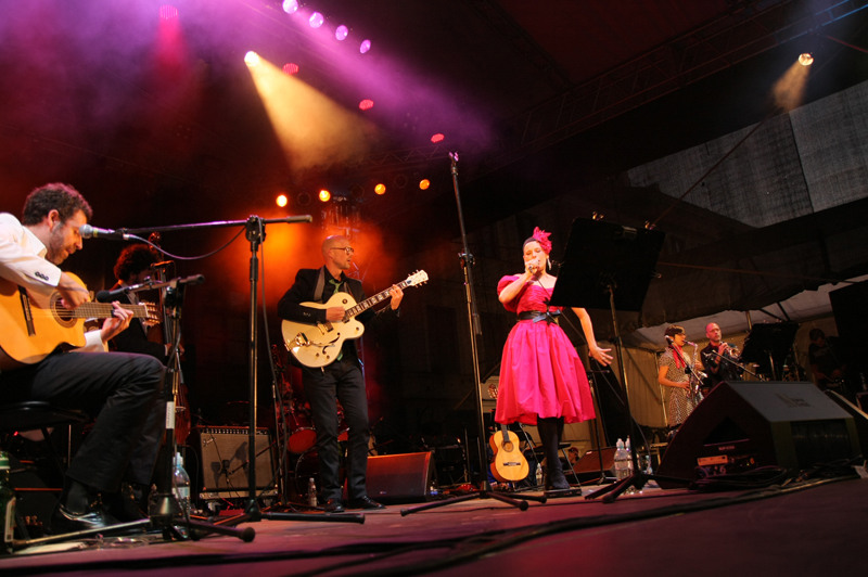 Giulia y los Tellarini - Art and Music Festival "Inne Brzmienia", Lublin, Poland, 2010